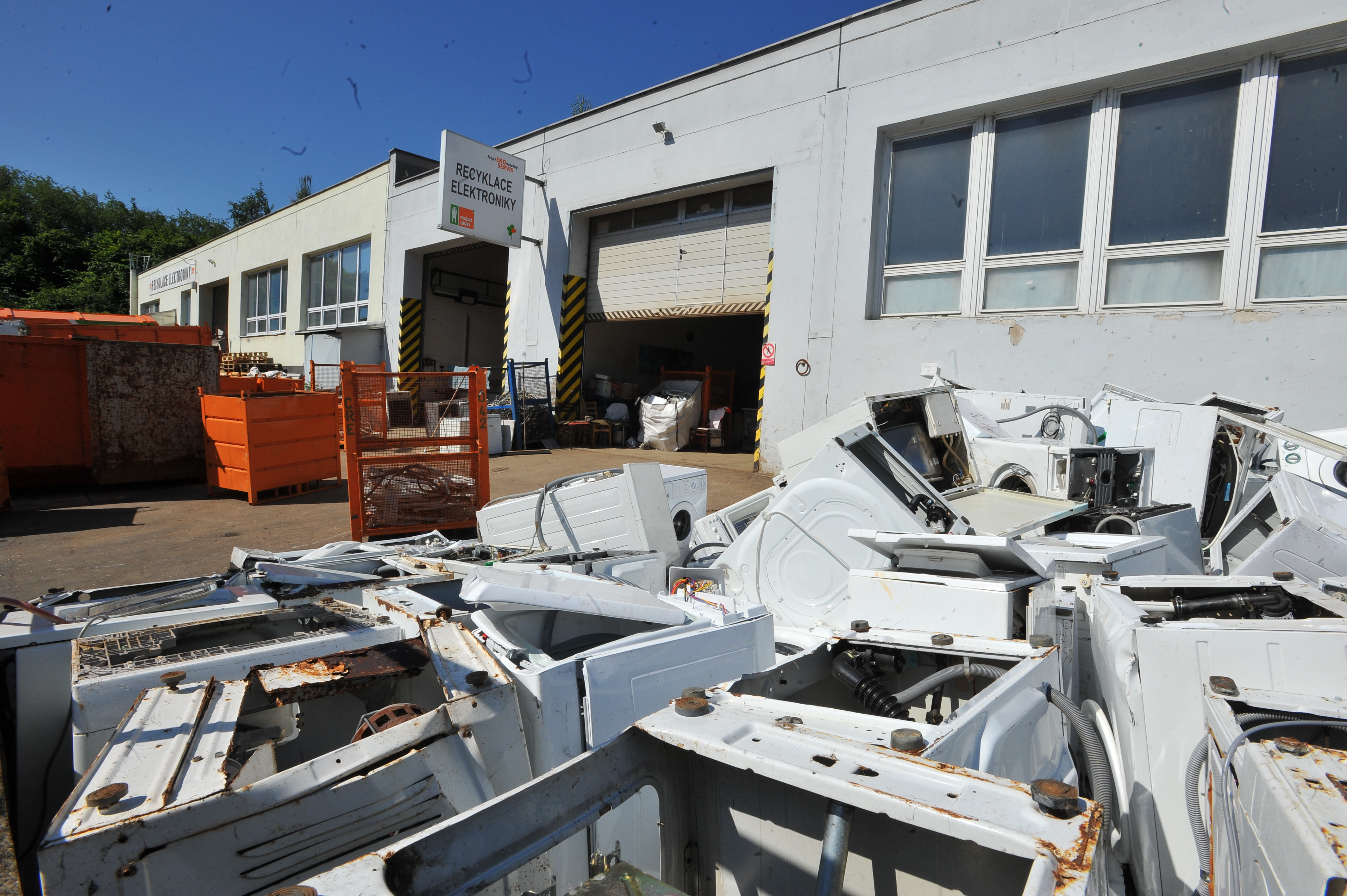 sběr odpadu